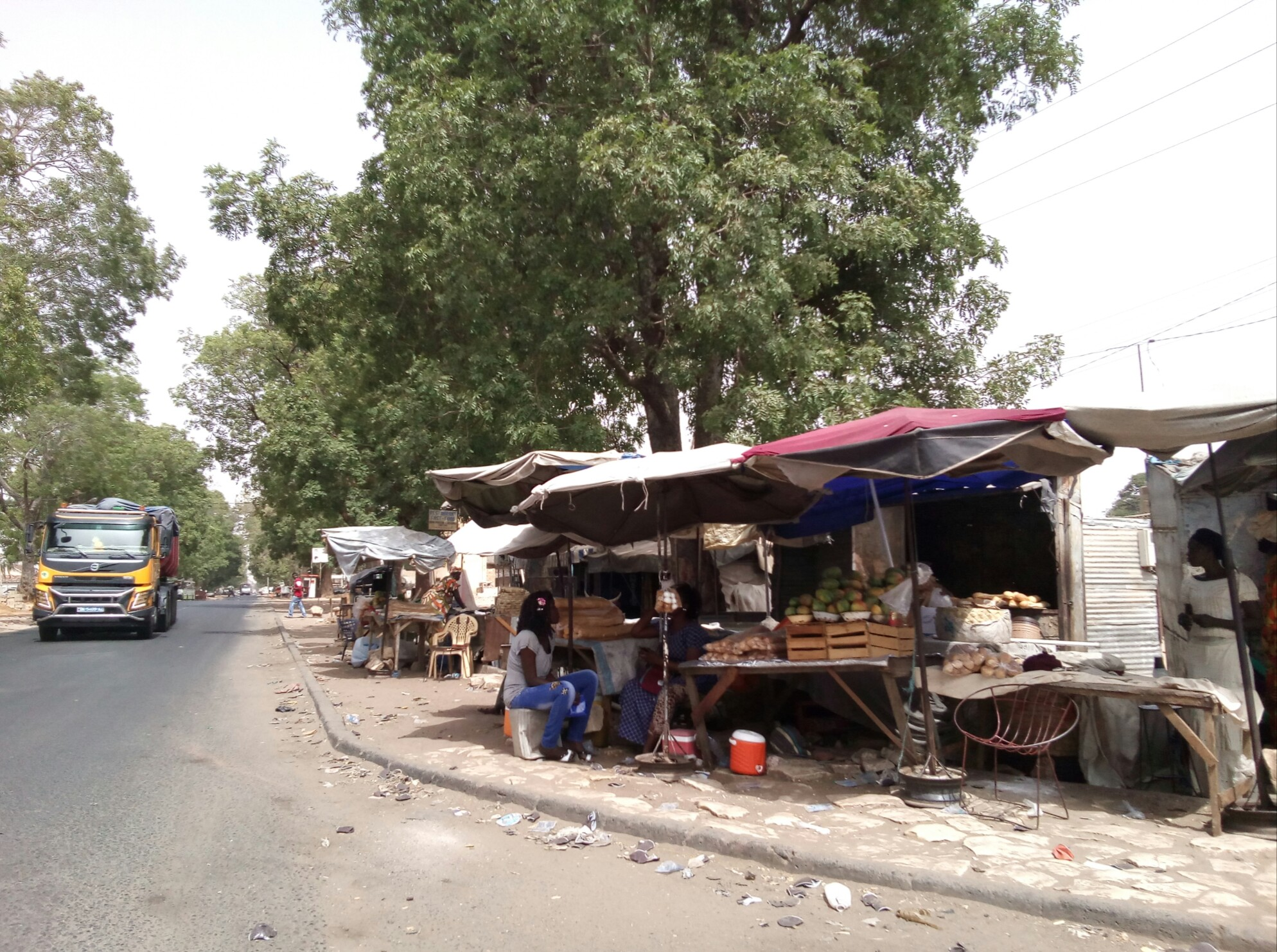 Produce stalls on the highway betweenbetween Thiès and Touba.